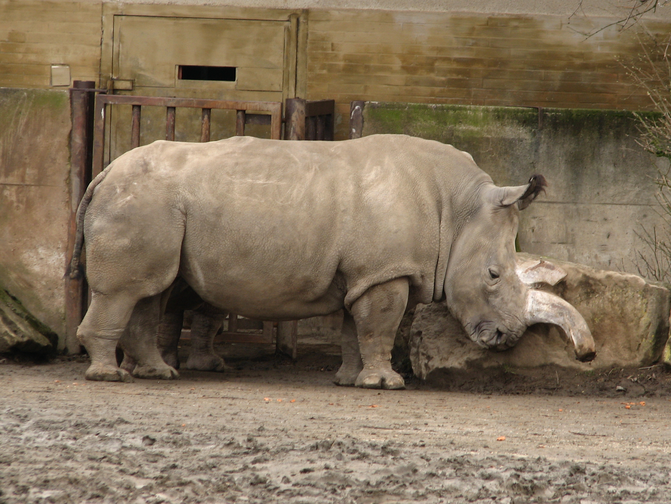 Northern White Rhino, ZOO Dvůr Králové, Czech Republic